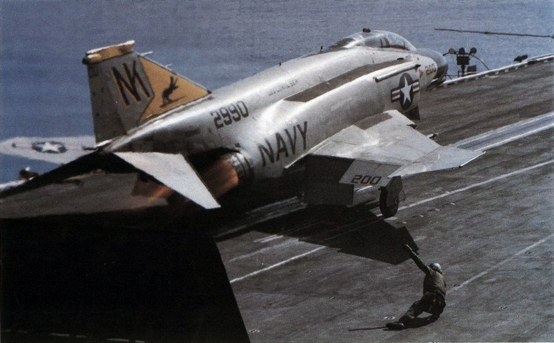 A U.S. Navy McDonnell F-4N Phantom II (BuNo 152990) from Fighter Squadron VF-21 "Free Lancers" is launched from the aircraft carrier USS Coral Sea (CV-43). VF-21 was assigned to Carrier Air Wing 14 (CVW-14) aboard the Coral Sea for a deployment to the Western Pacific and the Indian Ocean from 20 August 1981 to 23 March 1982.